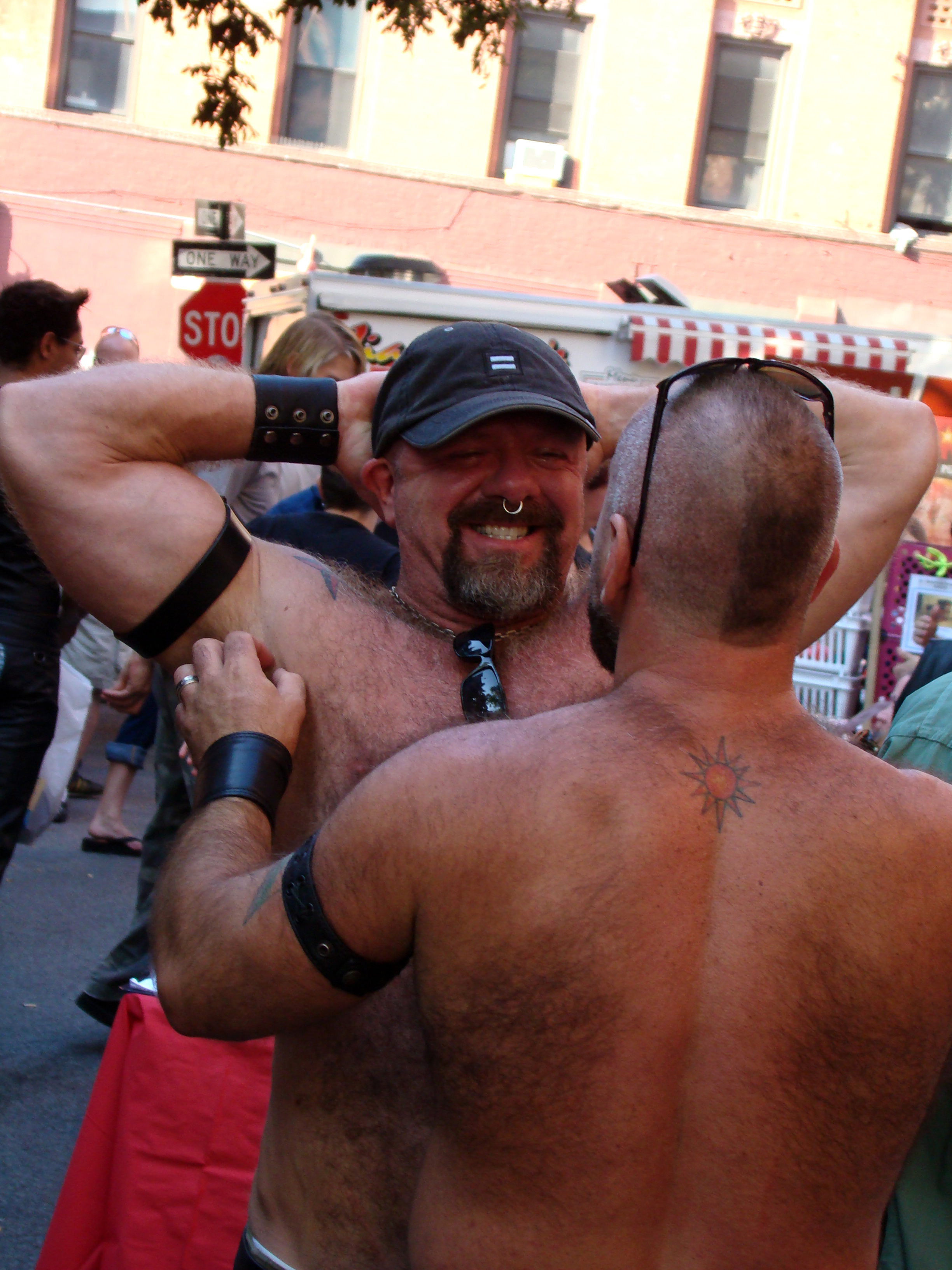 A man being tickled at West Village Leather Street Fest 2007.